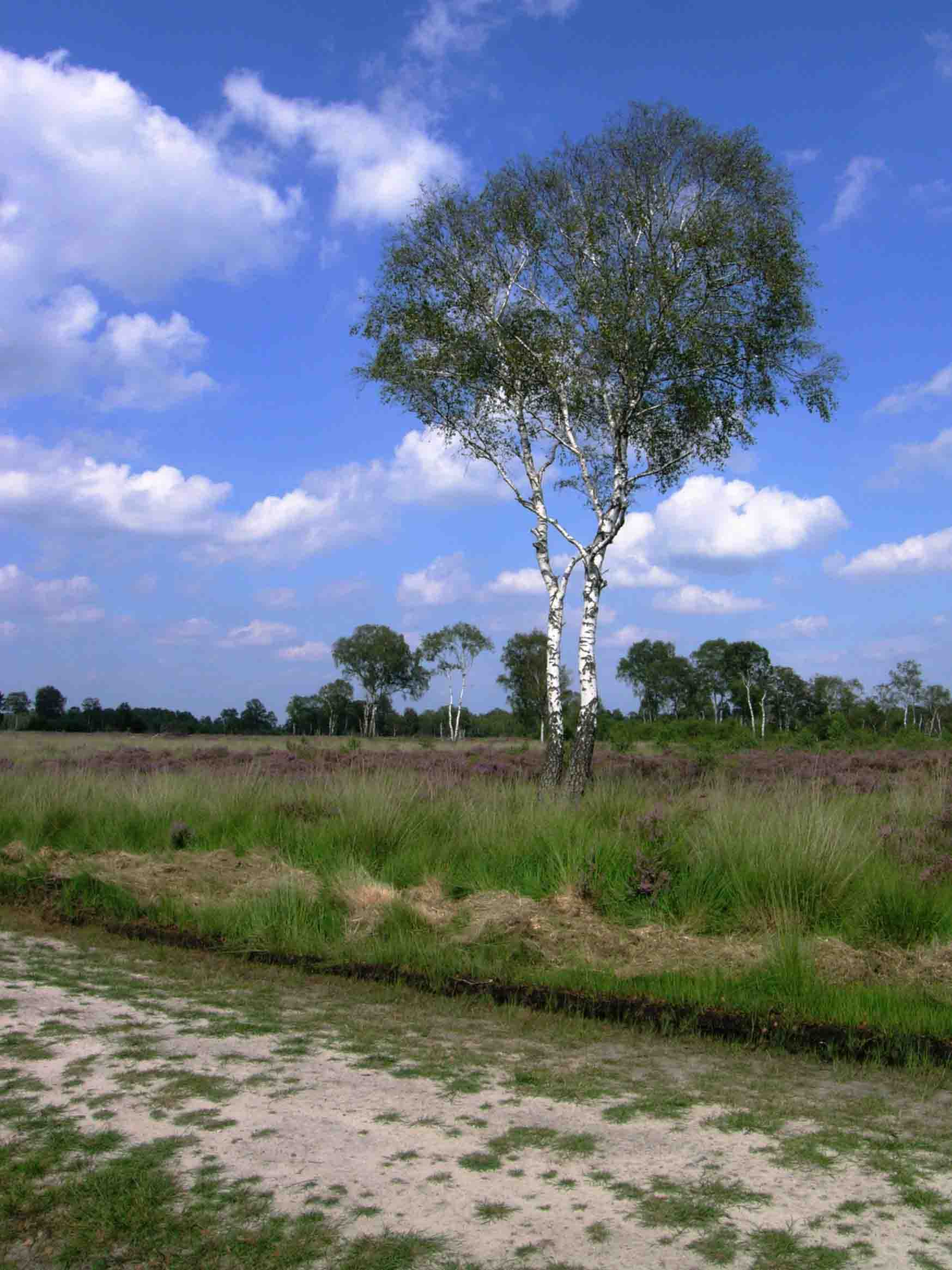 Photograph by Dirk van der Made (User:DirkvdM - for more photos see user:DirkvdM/Photographs). A birch tree in national park 'De Grote Peel' in 'de Peel' in the Netherlands.